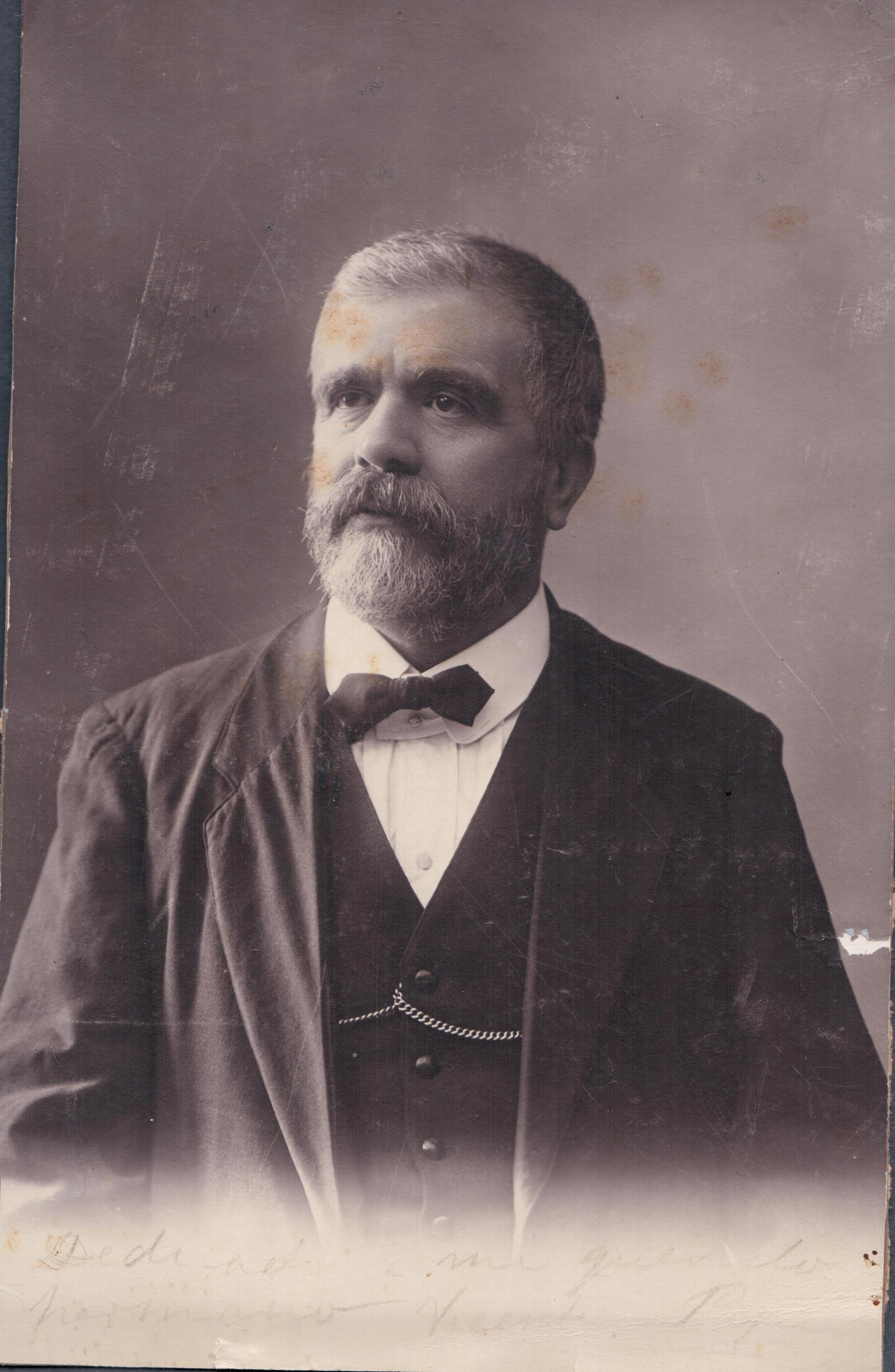 Dr. José Pérez Fuster Benidorm 1856-Valencia 1933. Médico Higienista, introductor de la seroterapia antidiftérica en Valencia, Director del Instituto Municipal de Higiene de Valencia